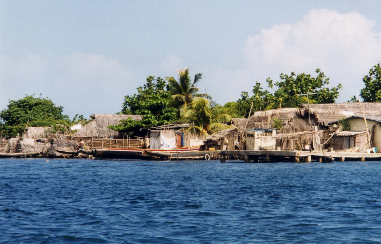 Houses on the San Blas Islands off Panama